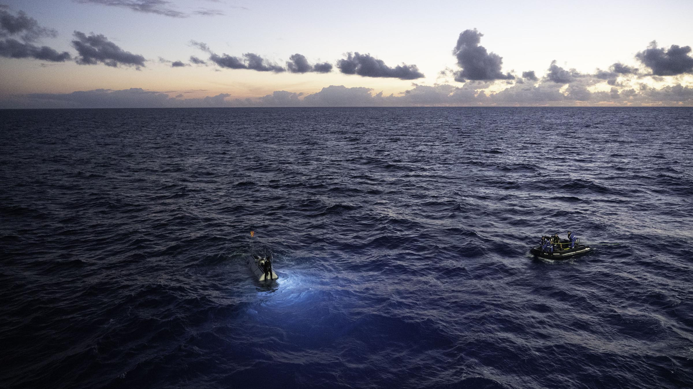 Victor Vescovo dove a board the deep diving submersible Limiting Factor to the bottom of the Puerto Rico Trench. The picture was taken after the six hours dive at the 19th of December 2018.